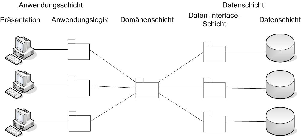 Example of a 3-tier architecture with presentation and data-interface layer